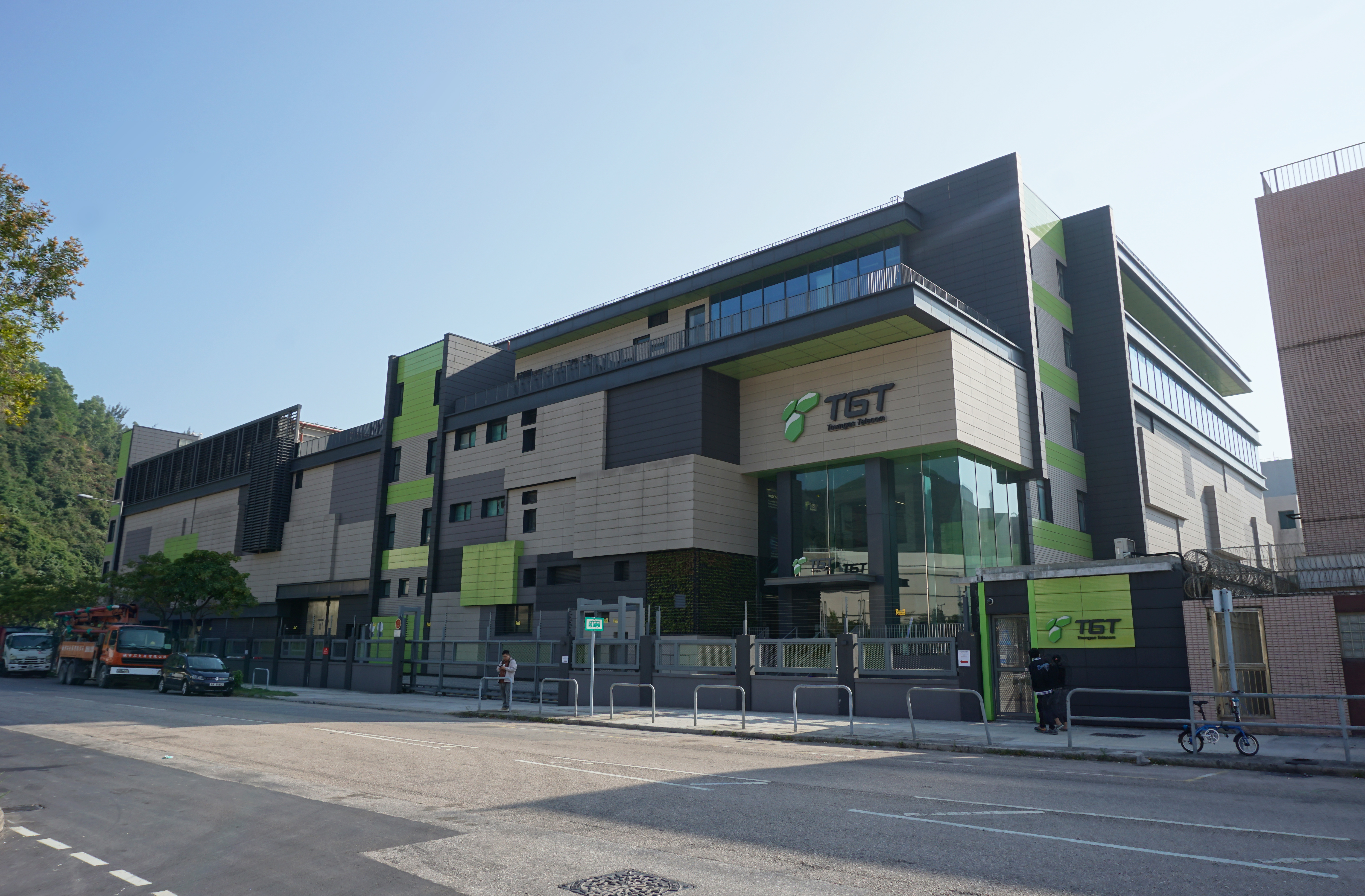 TGT Hong Kong Data Centre 2 in Tai Chik Sha, Hong Kong.